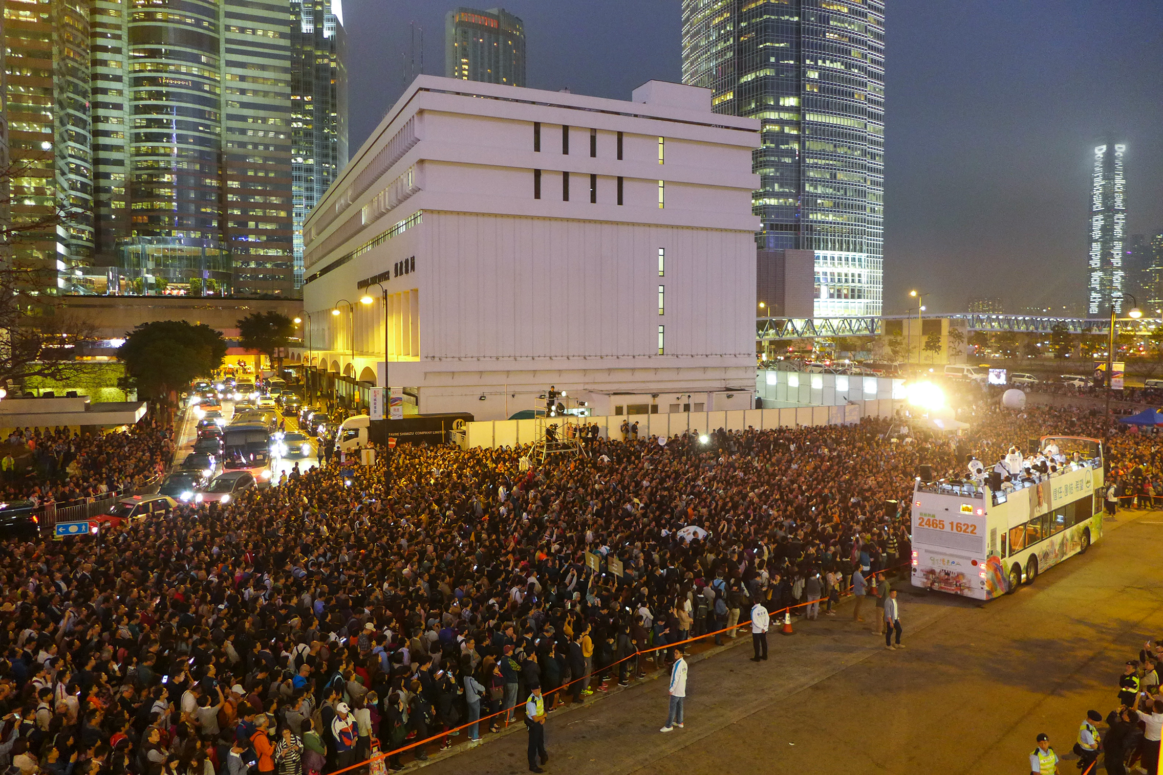 John Tsang rally in Edinburgh Place 20170324